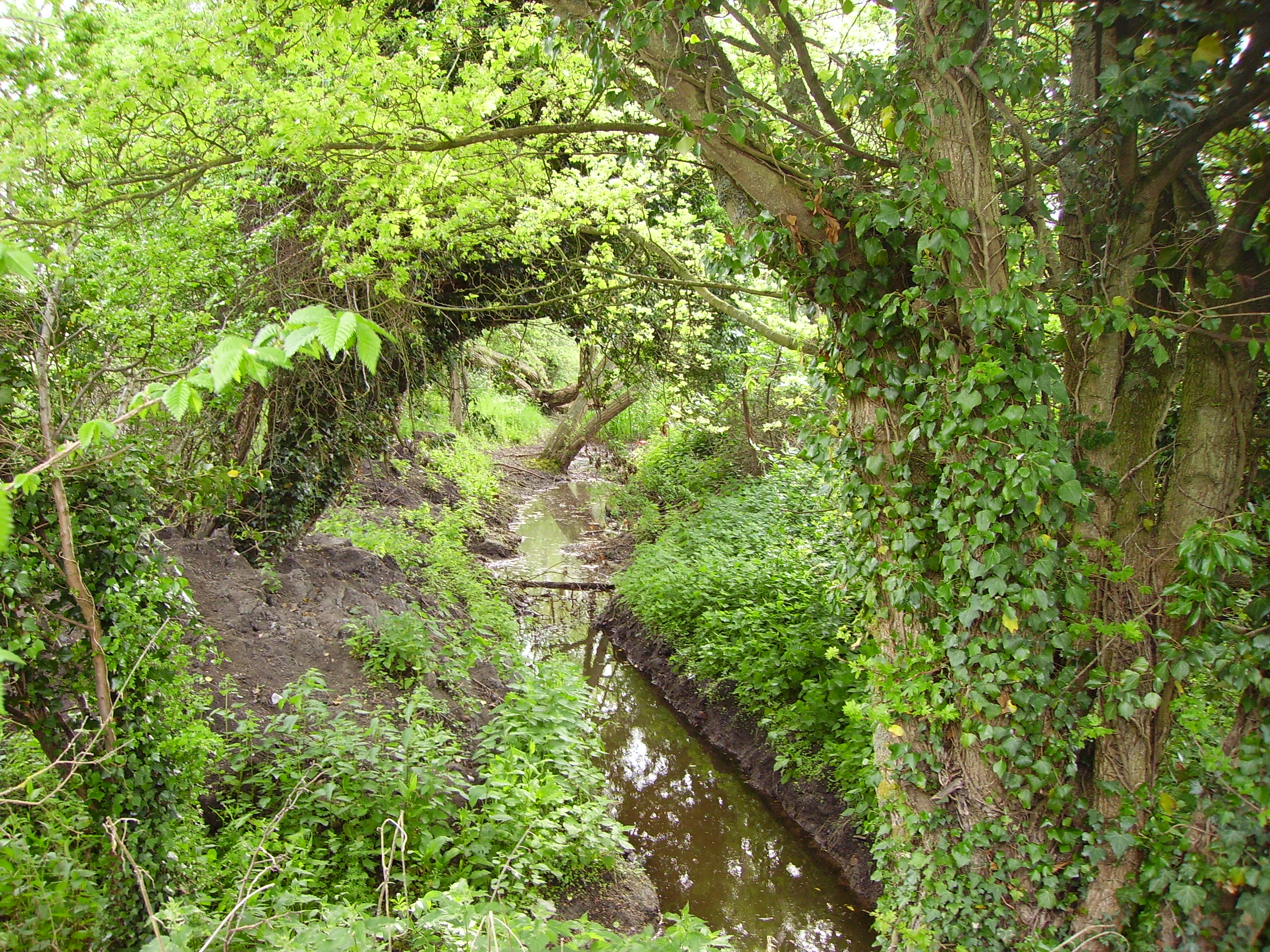 Photographer: User:Ballista Talk